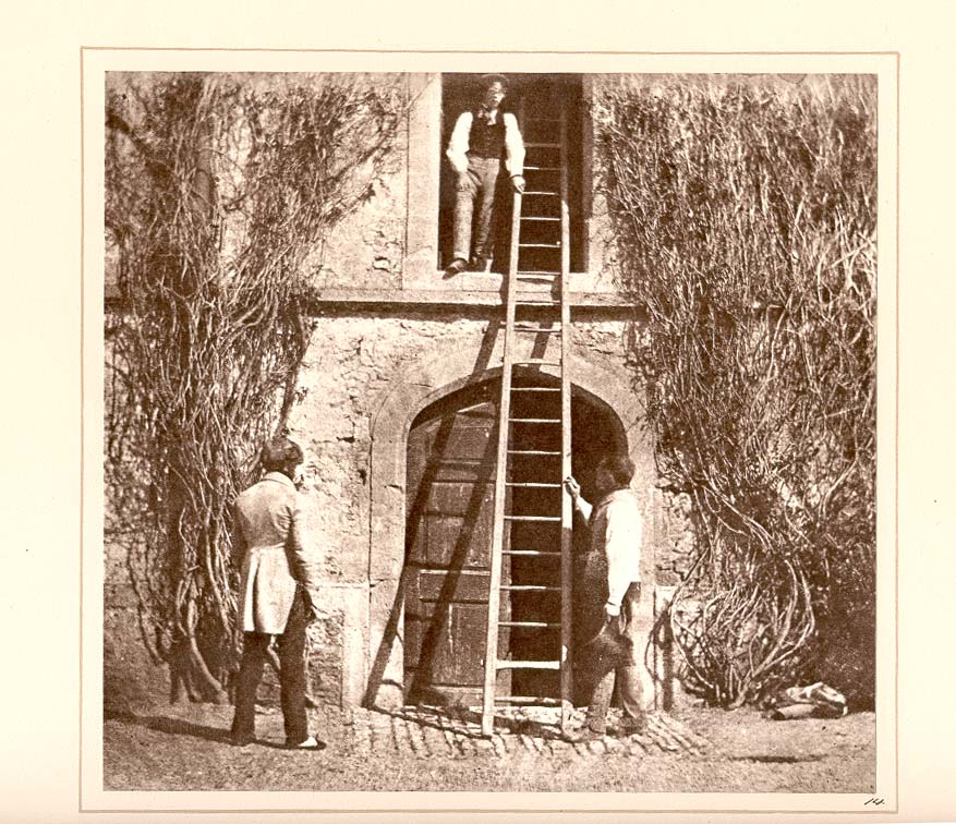 The Pencil of Nature 'The Ladderw -Plate 14